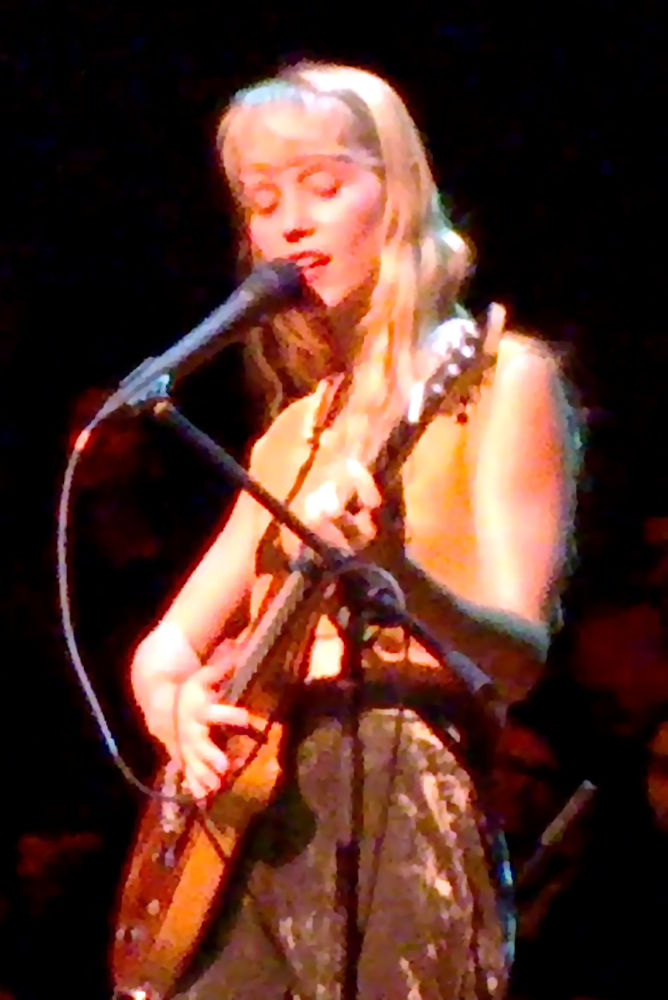 Alice Phoebe Lou singing at Funkhaus Berlin on 2 December 2017